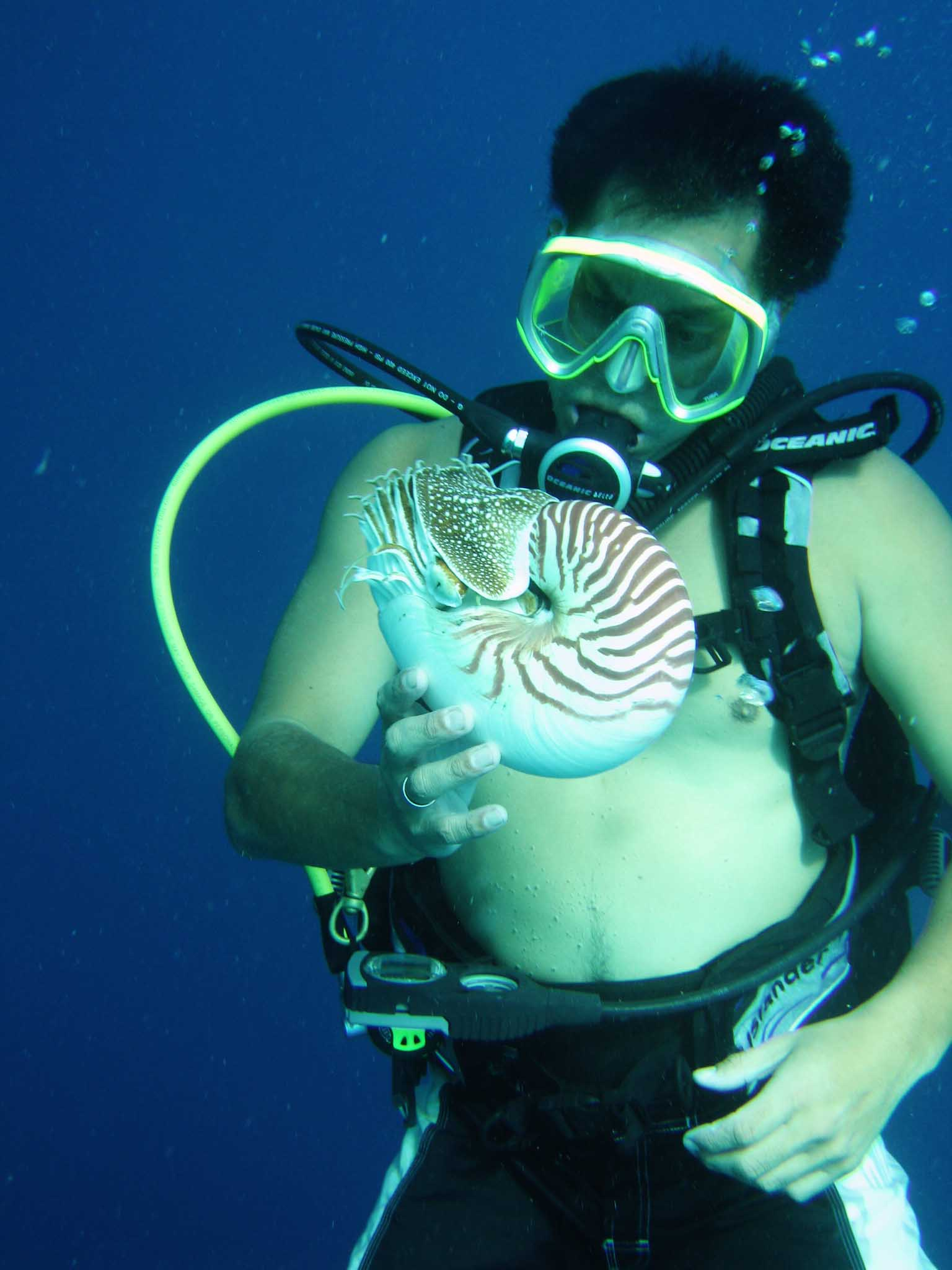 Diver with nautilus. Palau Micronesia. Photo by Lee R. Berger.